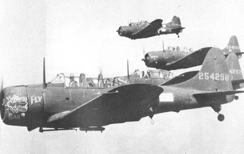 A-24 Banshee dive bombers of the 635th Bombardment Squadron in Alaska, 1943. Visible in front is Douglas A-24B-1-DT 42-54298